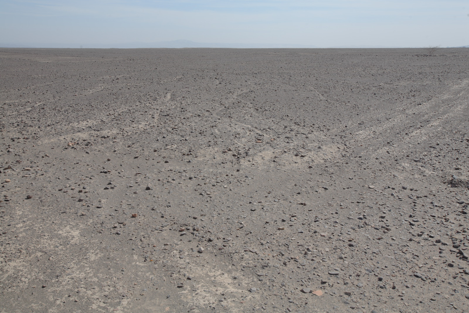 Nazca Lines from 5m in height. Title is mistake. Tree image is taken in this picture from Mirador.